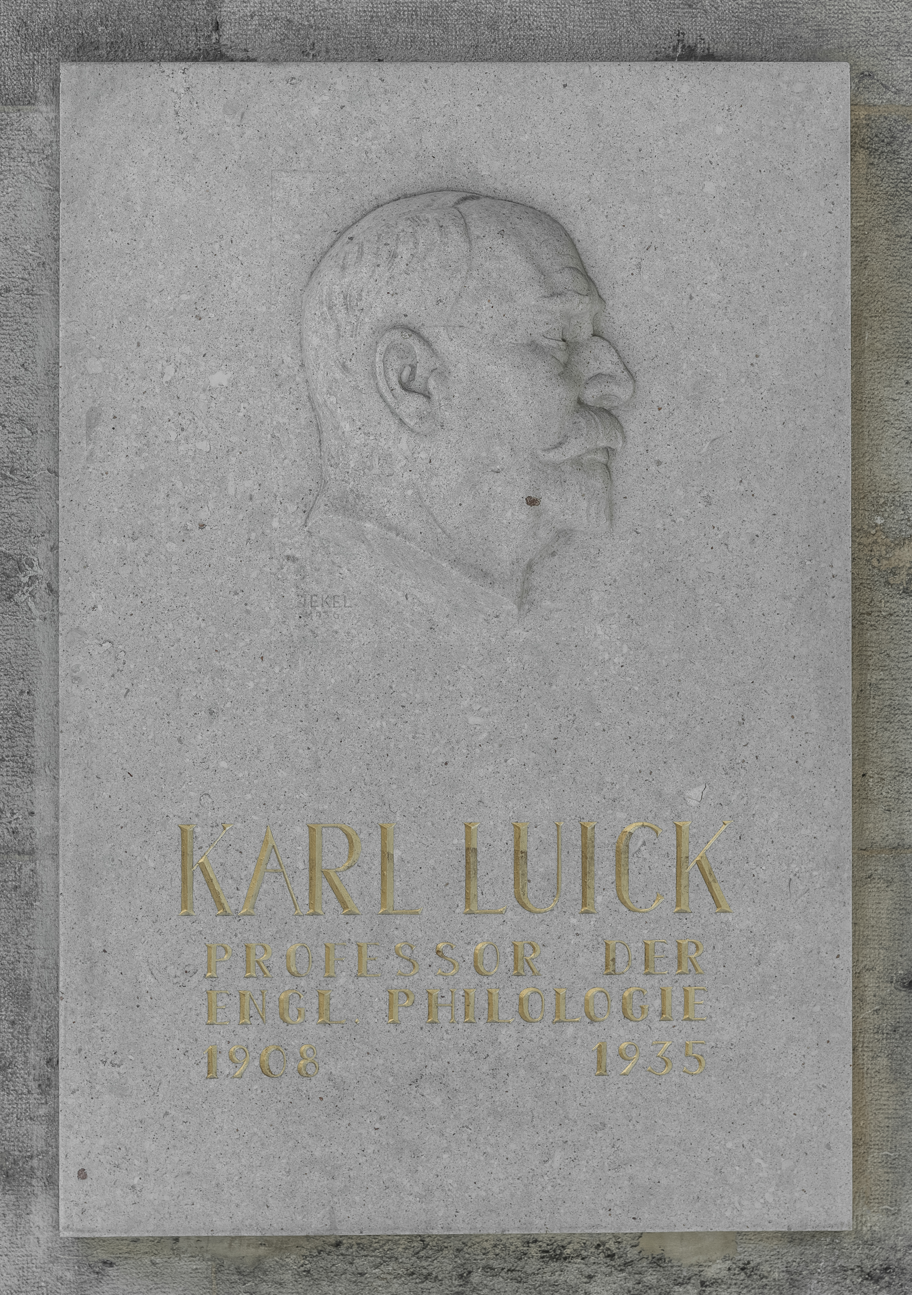 Karl Luick (1865-1935), Basrelief (Marmor) im Arkadenhof der Universität Wien, (Maisel-Nummer 105), Künstler: Heinz Satzinger (1838-1919), enthüllt 1956 The making of this work was supported by Wikimedia Austria. For other files made with the support of Wikimedia Austria, please see the category Supported by Wikimedia Österreich.